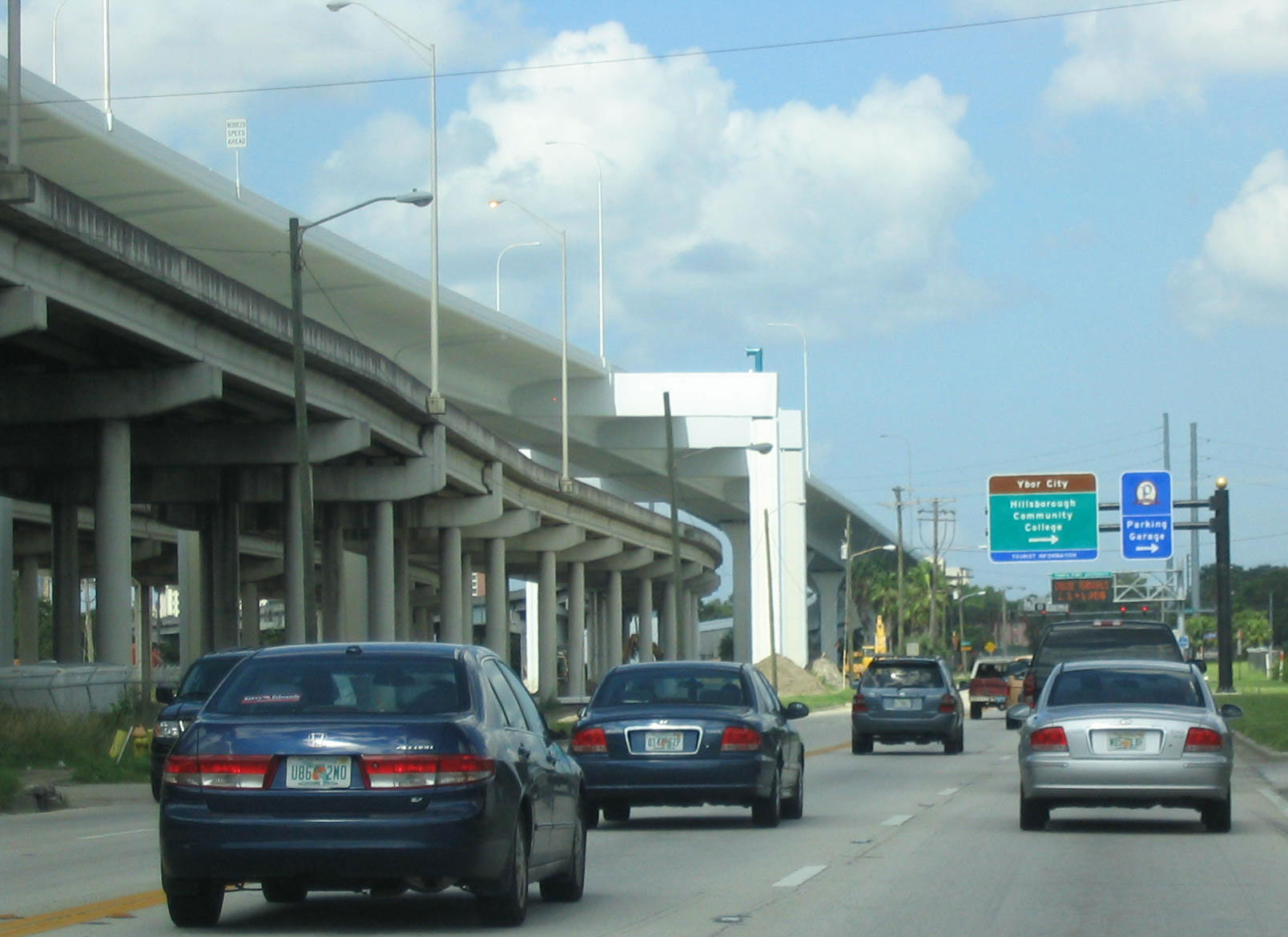 SR 60 west approaching 15th Street in Tampa, Florida, taken August 6, 2006 by SPUI. The SR 618 reversible lanes come down to ground level ahead.